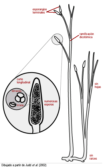 A reconstruction of Aglaophyton sporophyte. General view (right) and details of sporangium and spore (left). After Dibujado (2002) in de Judd et al., 2002.